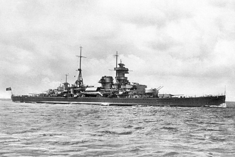 German heavy cruiser Admiral Hipper on trials, view from starboard. The near vertical bow was in late 1939, early 1940 rebuilt into an "Atlantic bow" (cruiser bow)